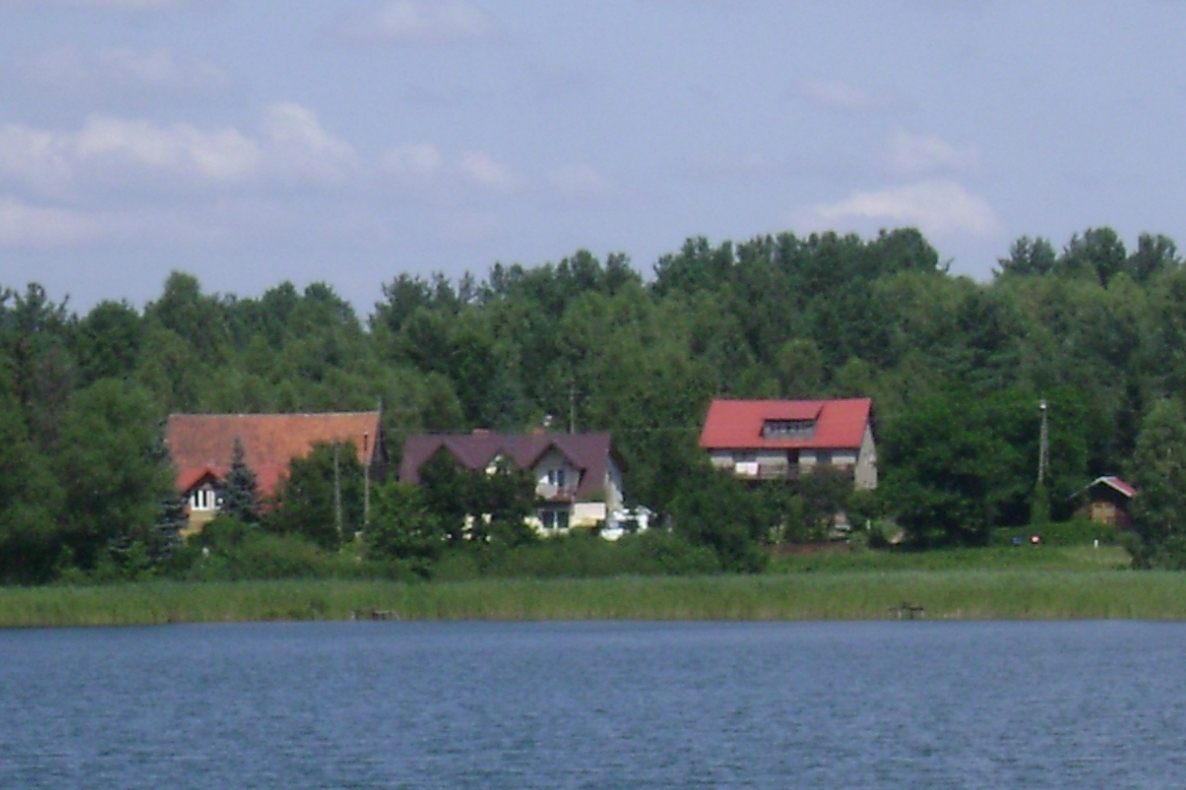 Warchały